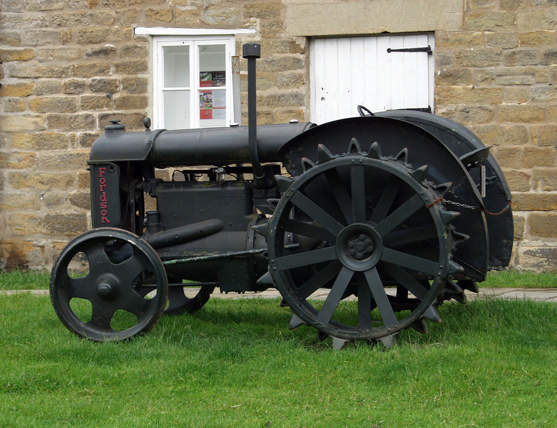 Fordson tractor, located at Hutton-le-hole, North Yorkshire